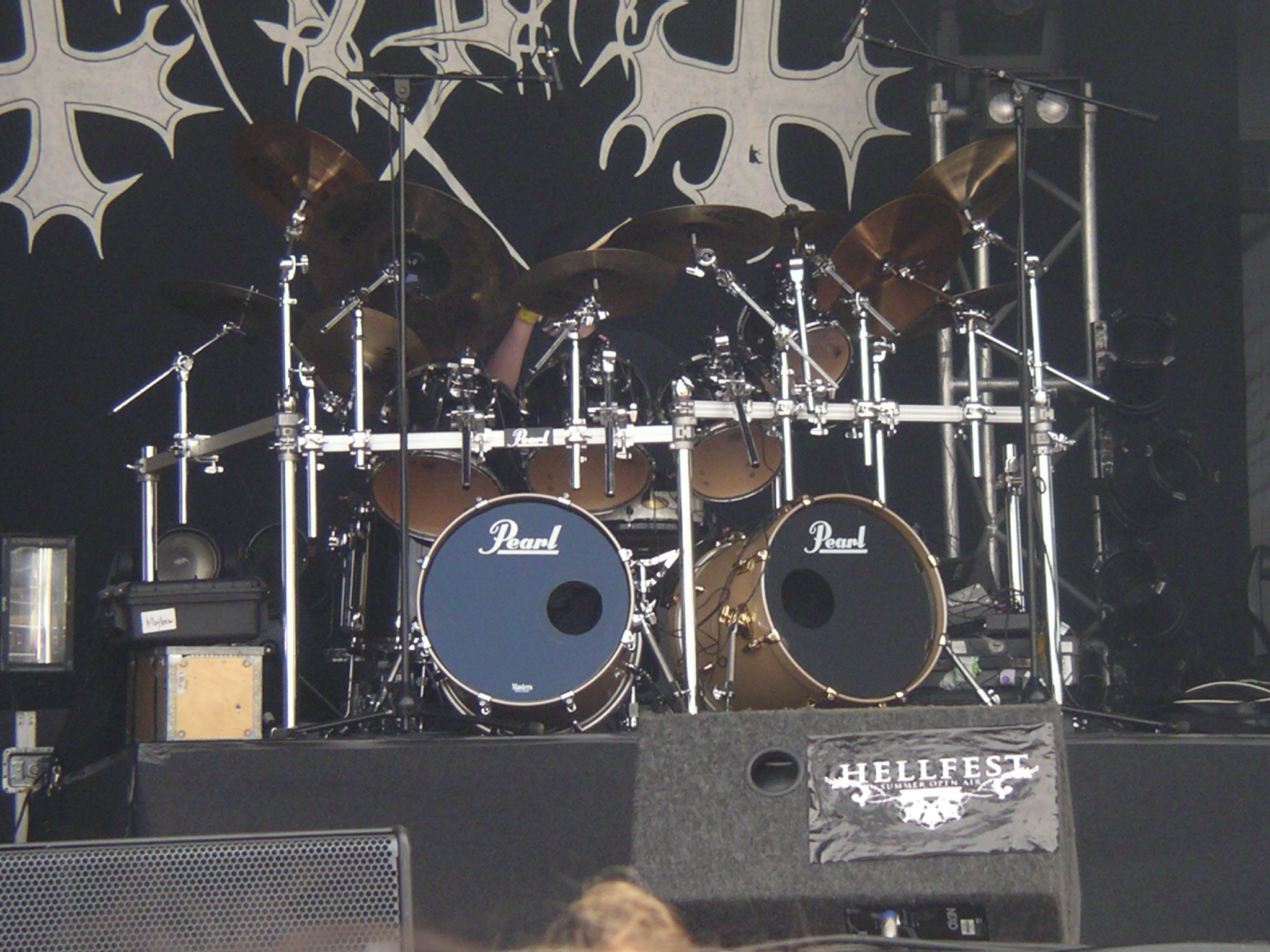 The HellHammer's drum kit with mayhem at Hellfest 2008 in Clisson